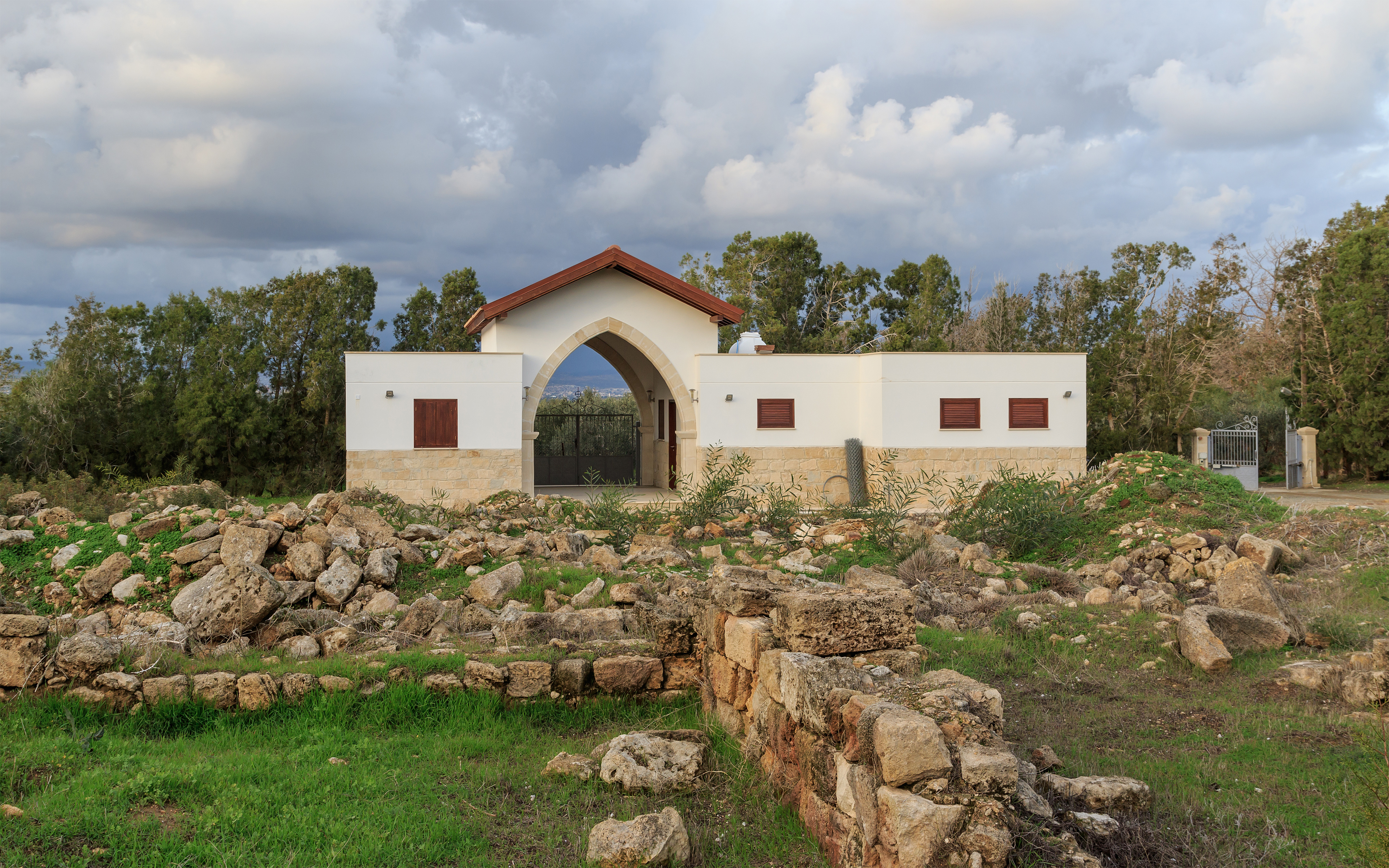 St. Nicholas Monastery of the Cats in Akrotiri near Limassol, Cyprus